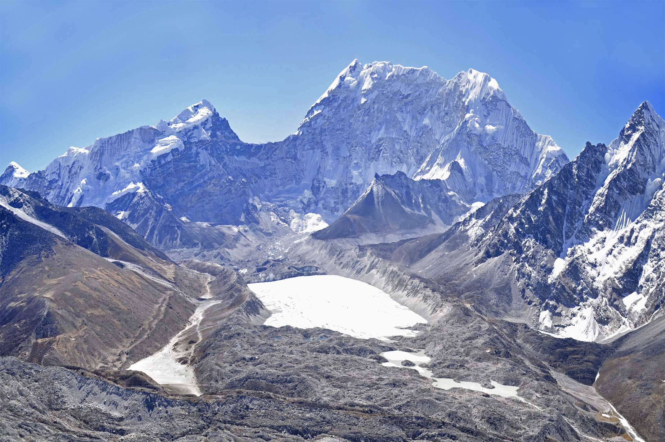 Glacier and Glacial lake of Nepal Himalya, Baruntse and Num Ri (left)